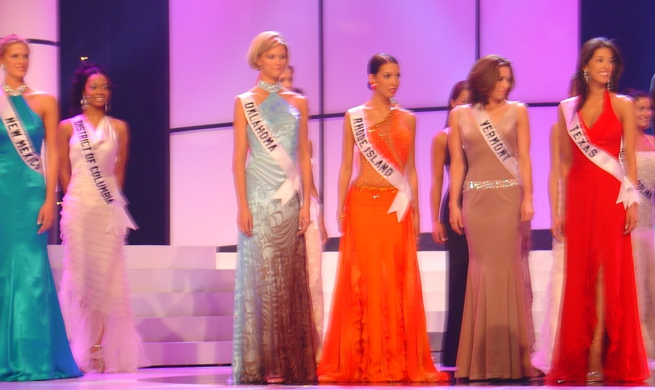 Contestants rehearsing for the Miss USA 2004 pageant